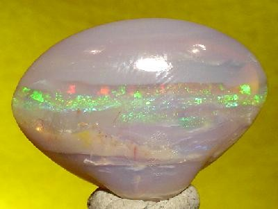 Opal Locality: Coober Pedy, Coober Pedy - Everard Range Regions, South Australia, Australia (Locality at ) Size: 2.8 x 2.0 x 1.0 cm. A CLASSIC, symmetical and beautiful opalized mollusc from the famous Coober Pedy Opal Field of South Australia. This lightly buffed beauty has excellent lavender color, but the streak of candy apple-green and red-orange fire really sets this distinctive fossil off.